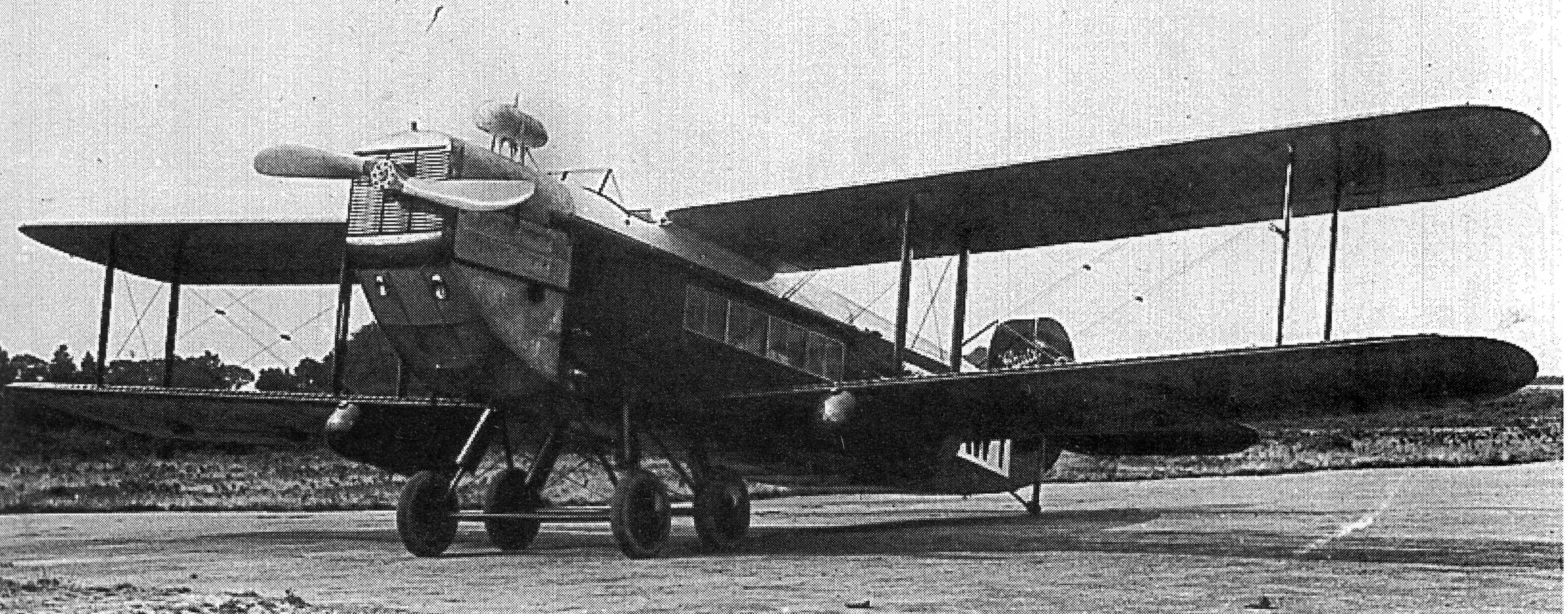 The first Bristol Ten-seater (G-EAWY), summer 1921